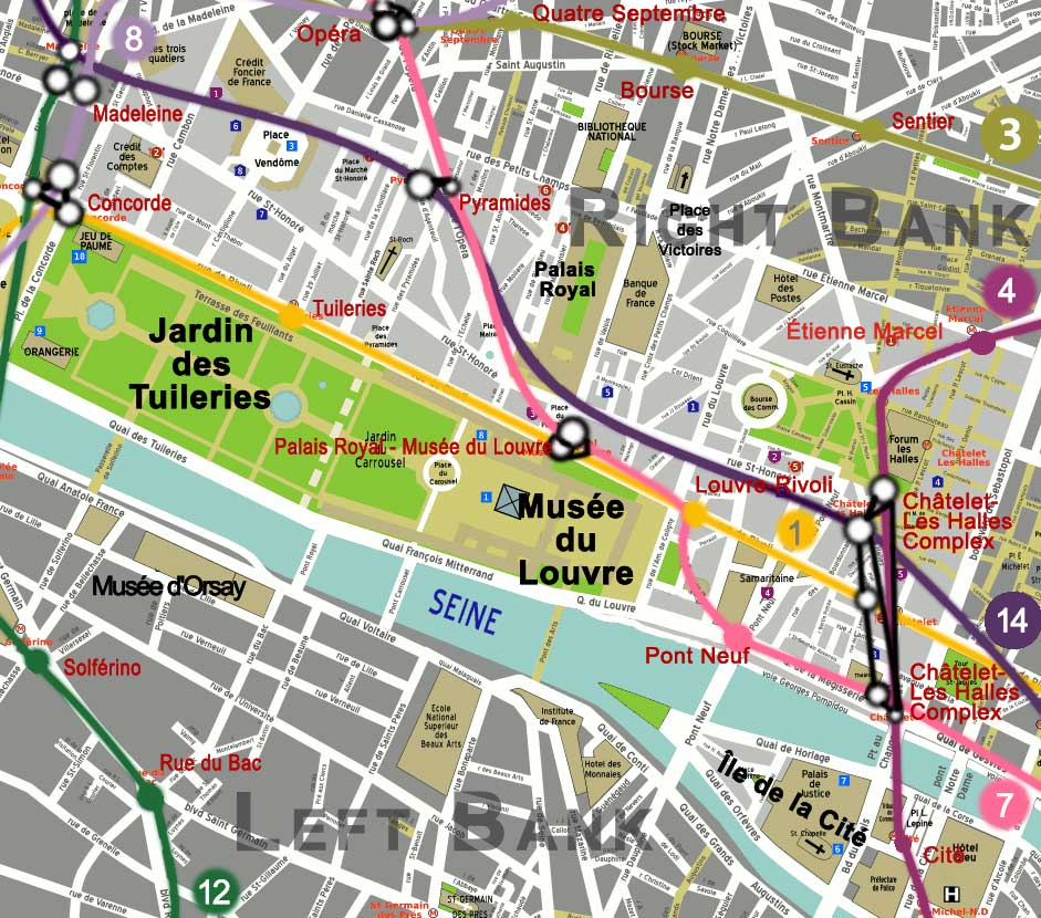 Map of 1er arrondissement in Paris with Metro Overlay.